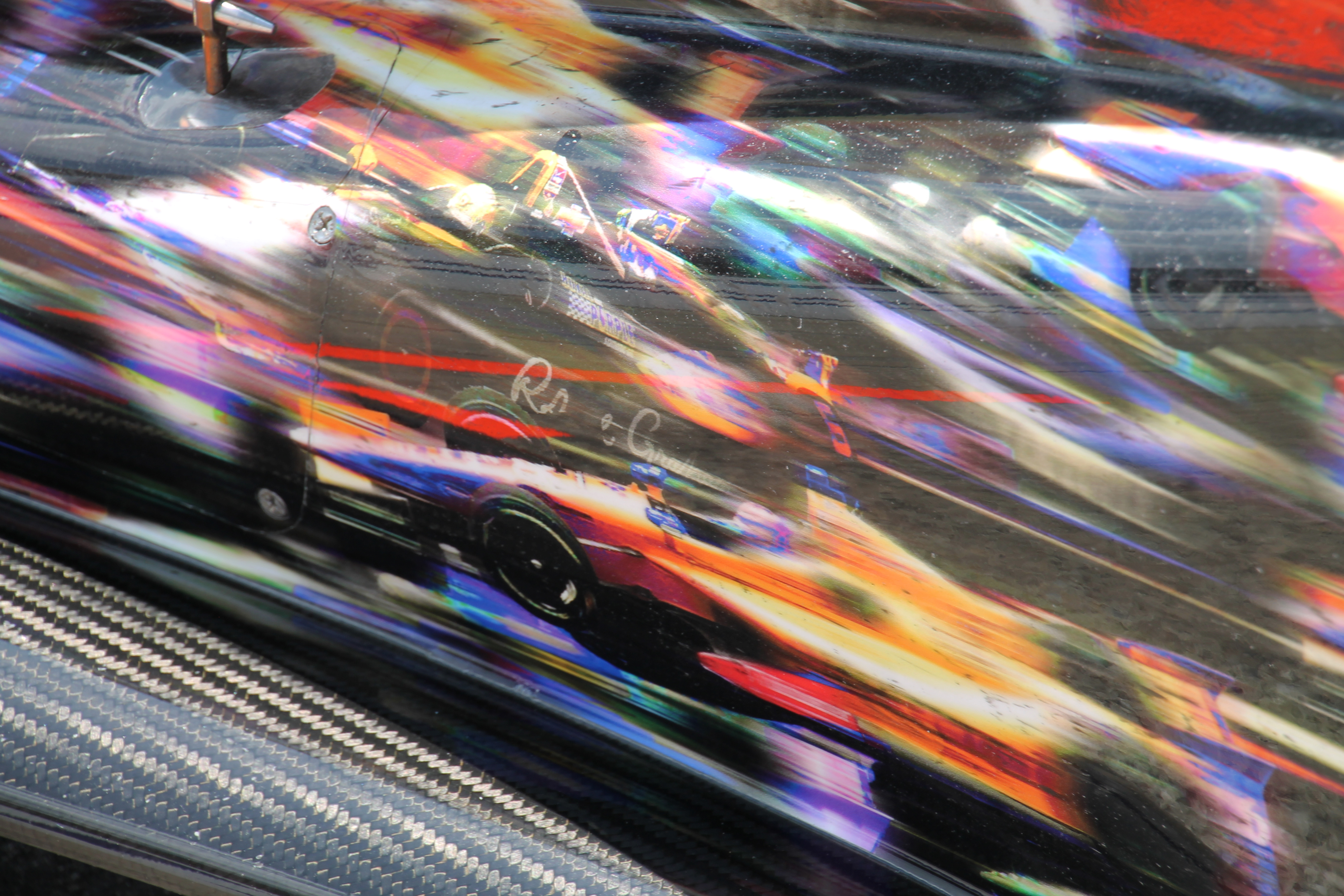 Details on Townsend Bell's #24 IndyCar as designed by Robert Graham at the Carb Day 2015 at the Indianapolis Motor Speedway